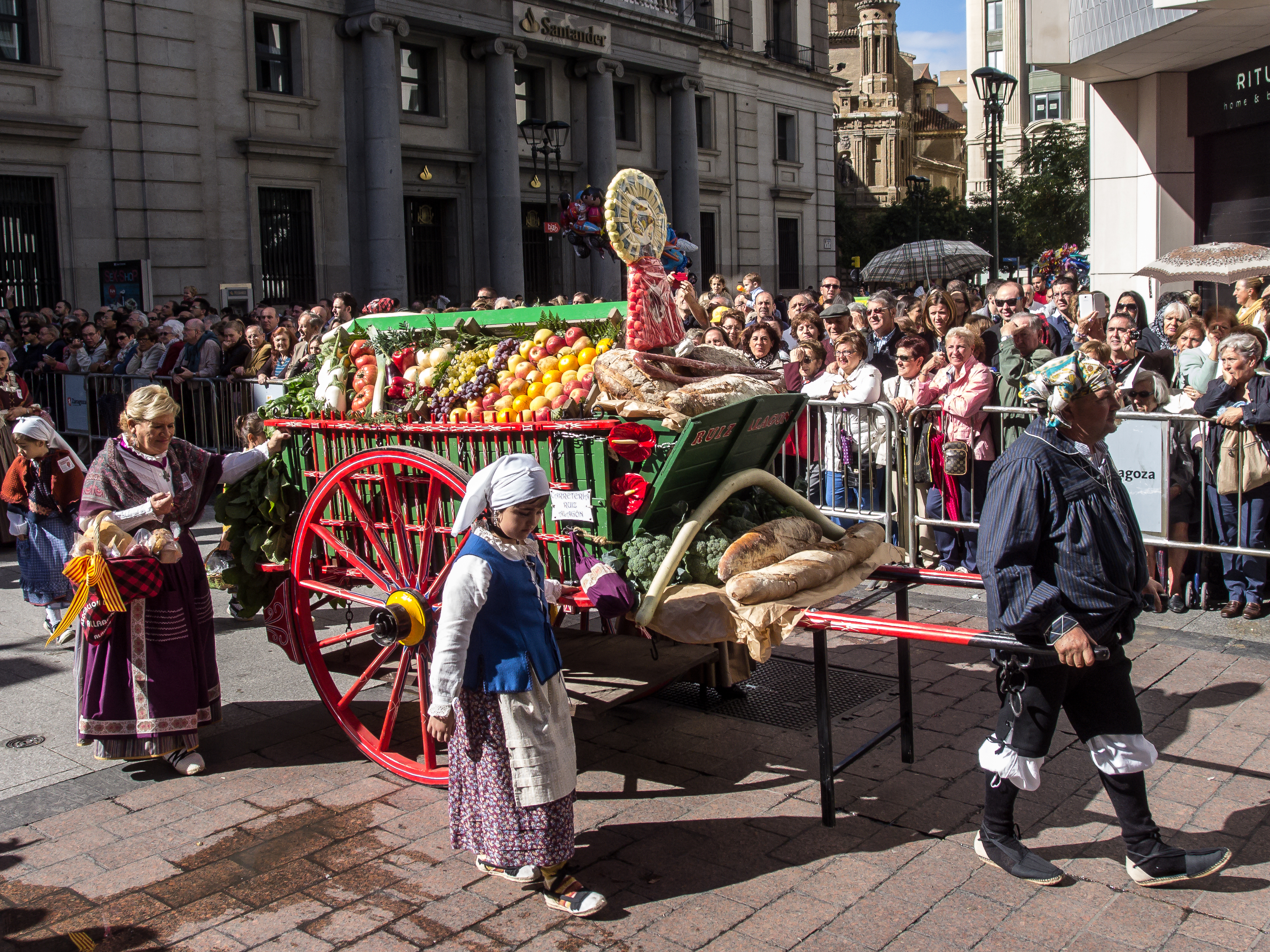 OLYMPUS DIGITAL CAMERA This is a photography of a Folklore festival in Spain (Wikidata id Q3092925).